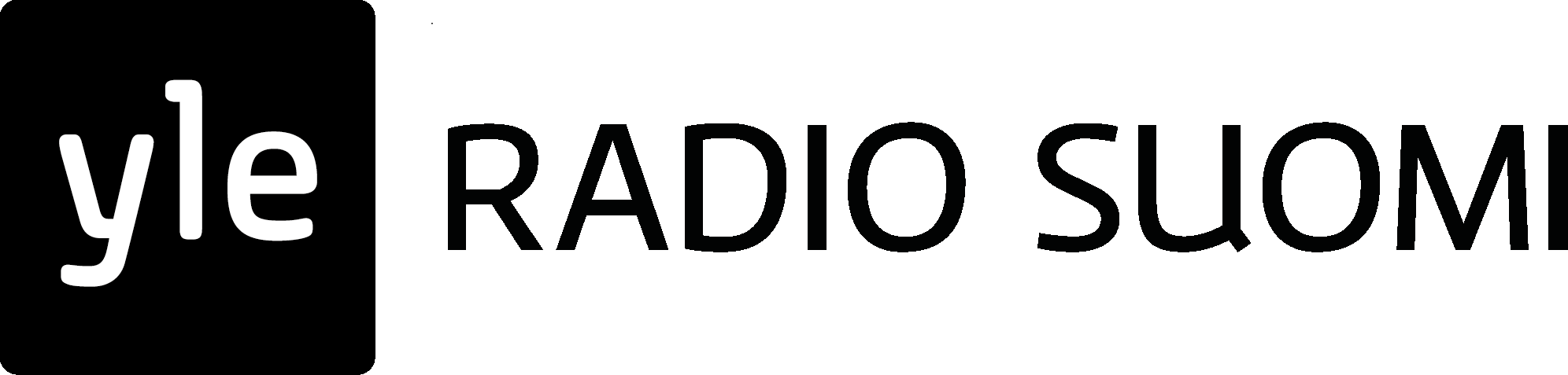 Yle Radio Suomi´s logo